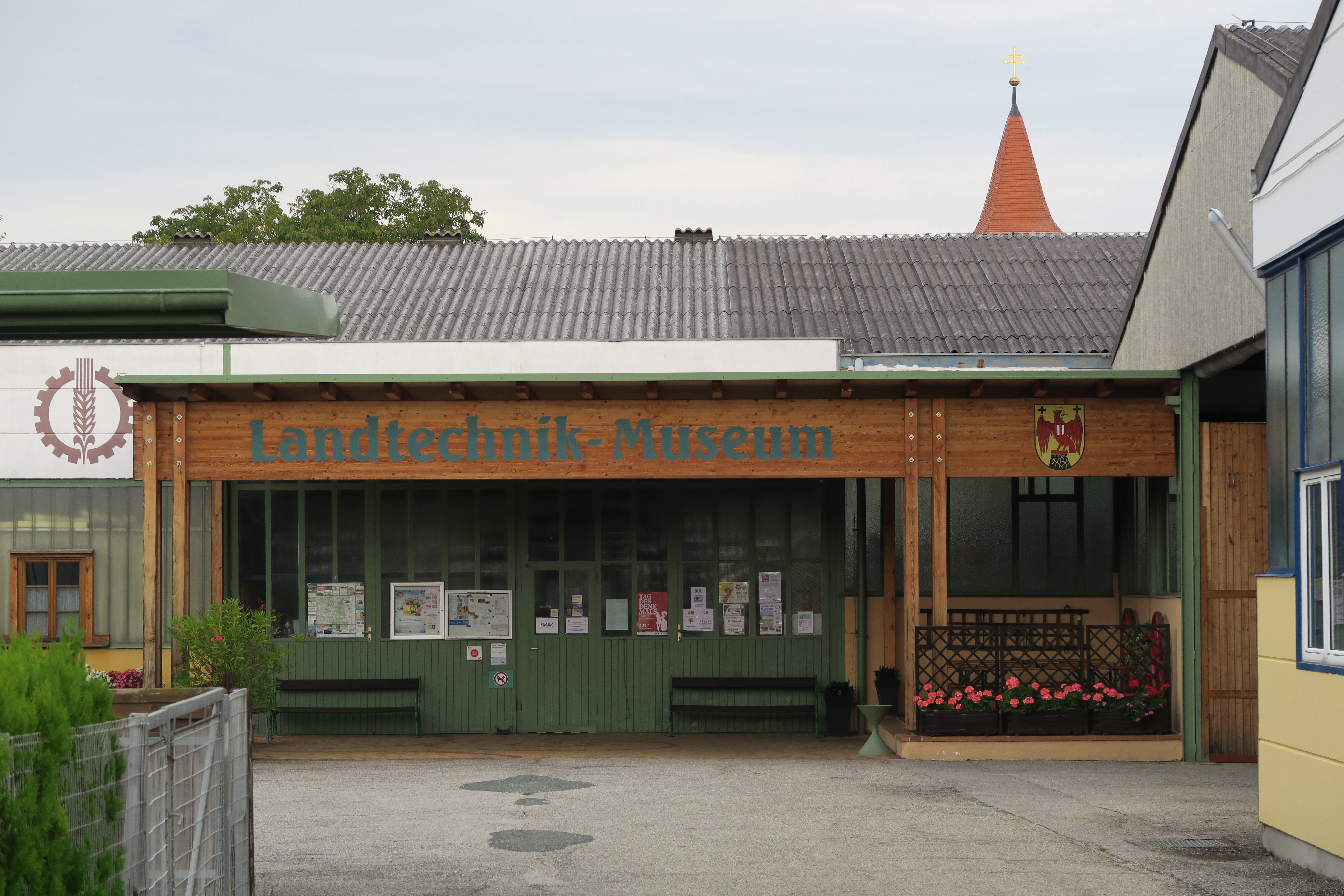 Landtechnikmuseum Burgenland, St. Michael